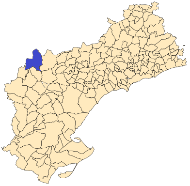 Riba-roja d'Ebre